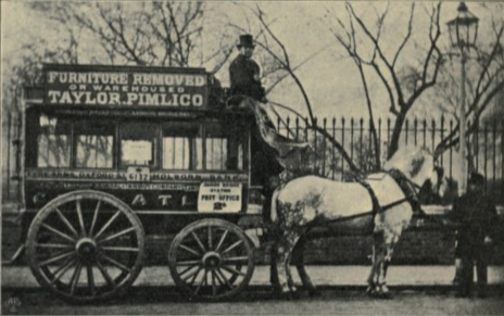 The first vehicle to cross the Holborn Viaduct p.98 of Omnibuses and Cabs